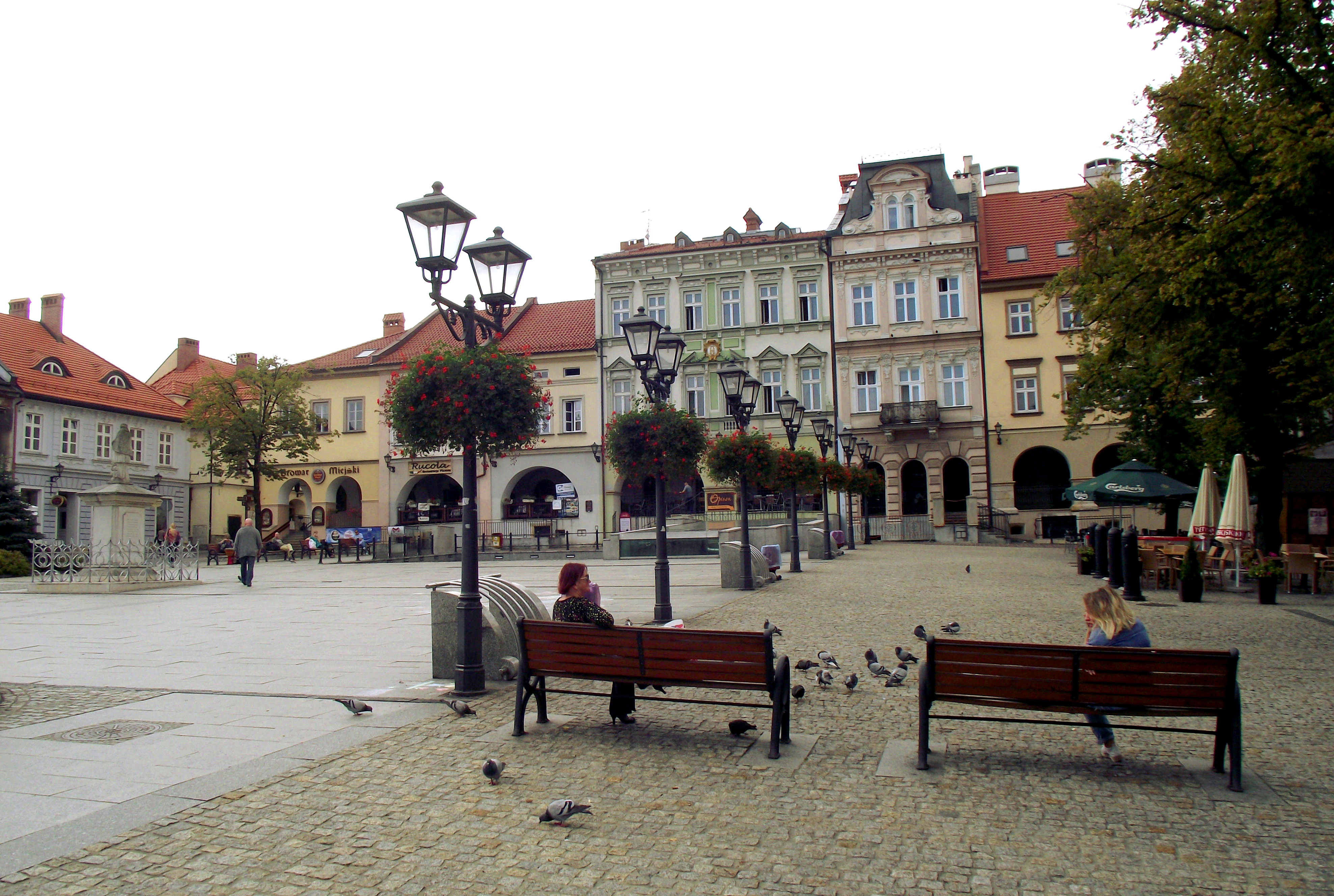 Market Square in Bielsko-Biała, Poland.